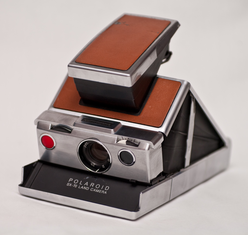 My Polaroid SX-70 which I found at a flea market a few years ago. I thought I paid much for this obsolete beast at the time, 20€. But when I checked on ebay a few days ago people are paying up to 100USD for them.